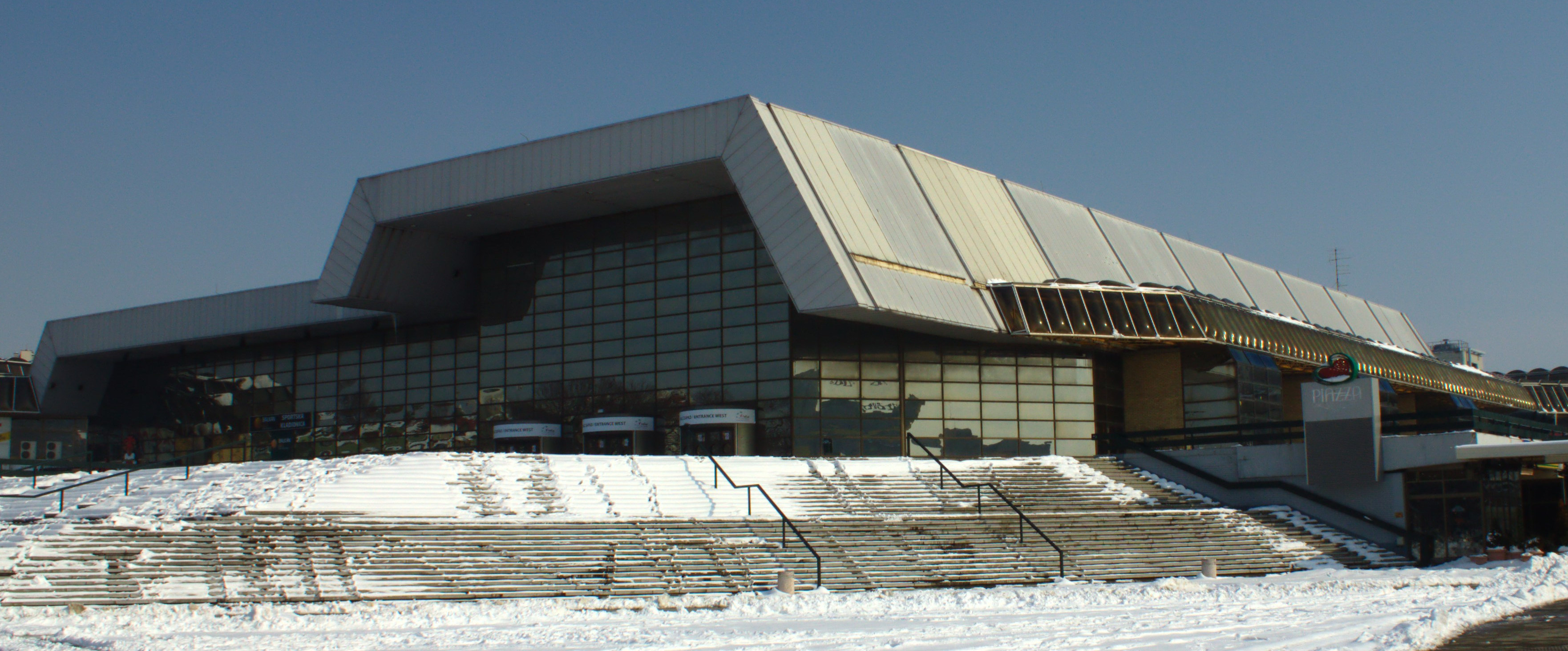 SPENS - shopping and sports centre in Novi Sad, Serbia